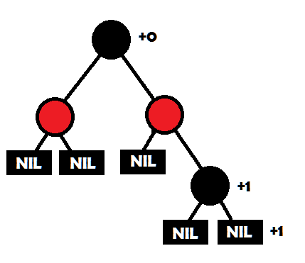 Altura preta de uma árvore (à partir da raiz) utilizando o método de não contar a raiz e contar os nós NIL